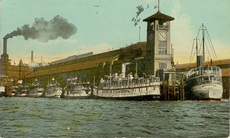 Colman Dock, Seattle, WA ca 1912